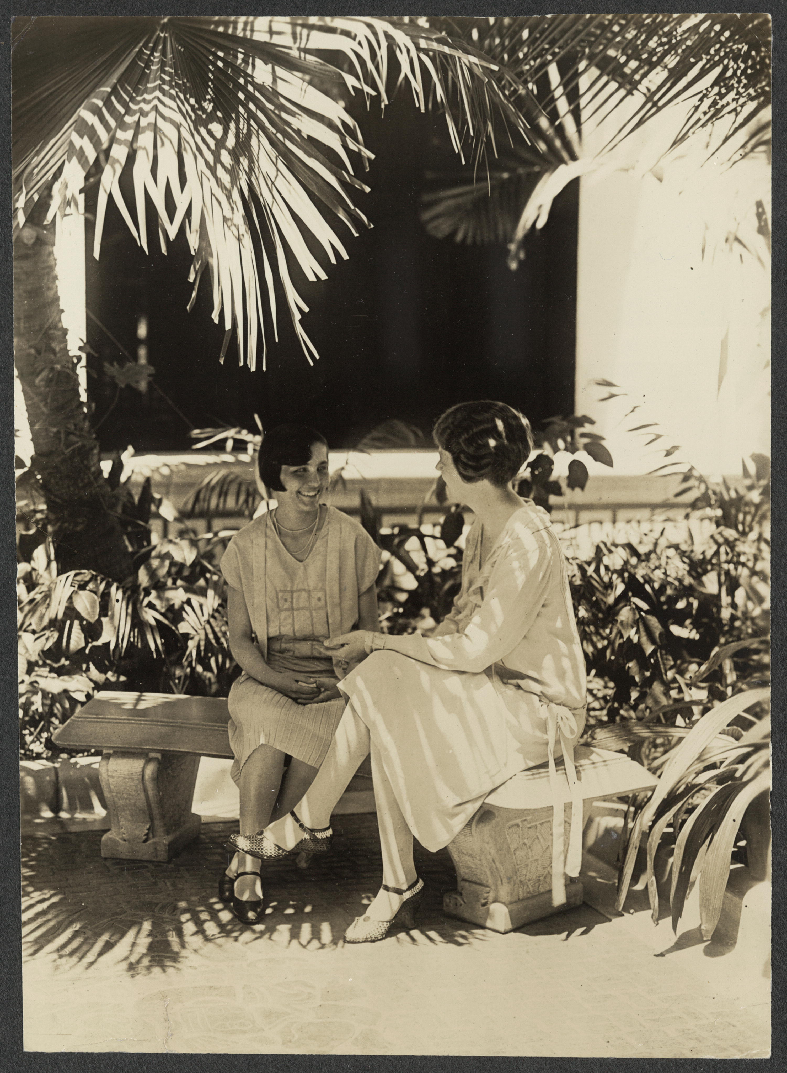 Summary: Photograph of two women sitting outside on stone bench under palm trees.